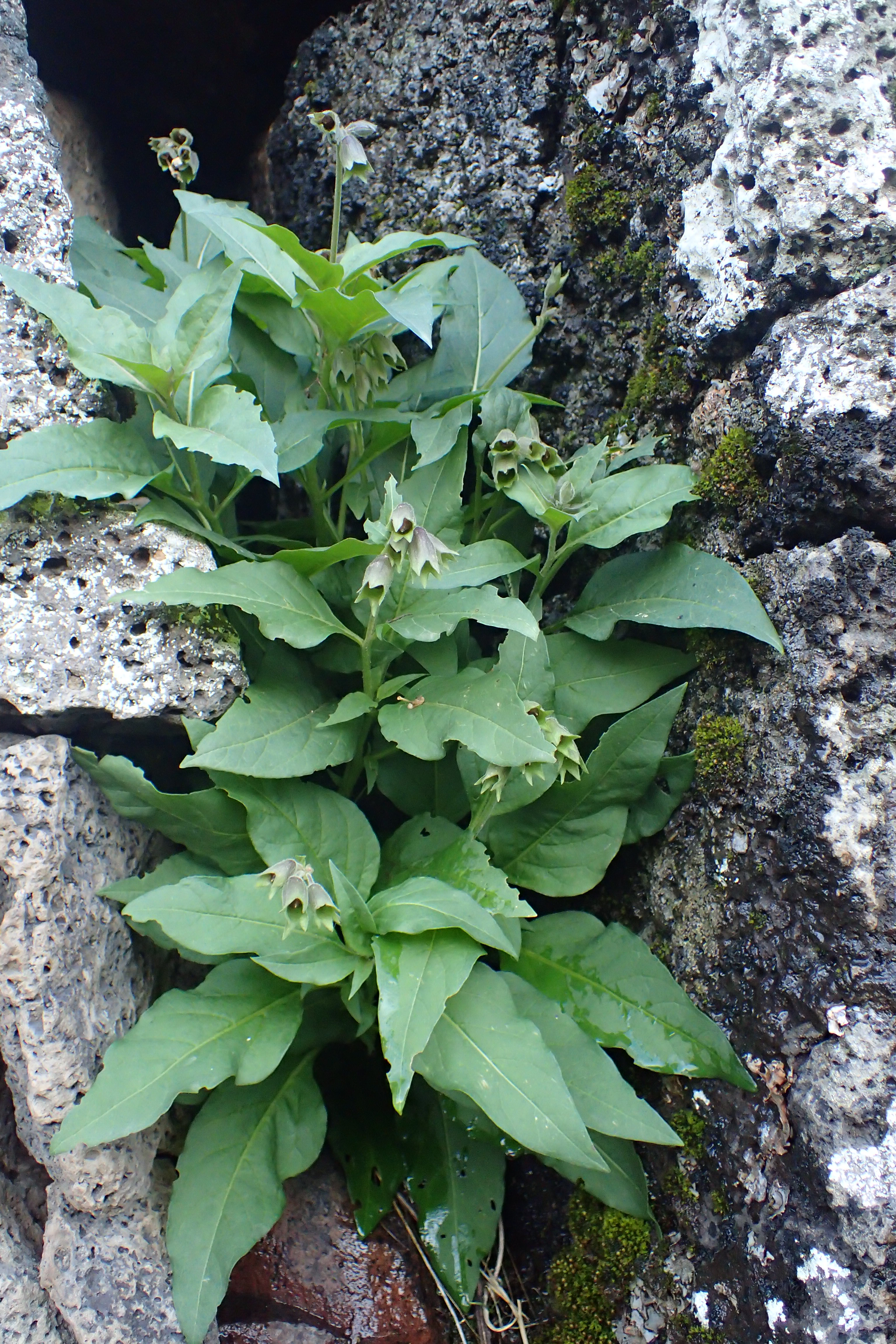 Physochlaina dubia on the rocks north from Achalkalaki, Georgia (Caucasus)